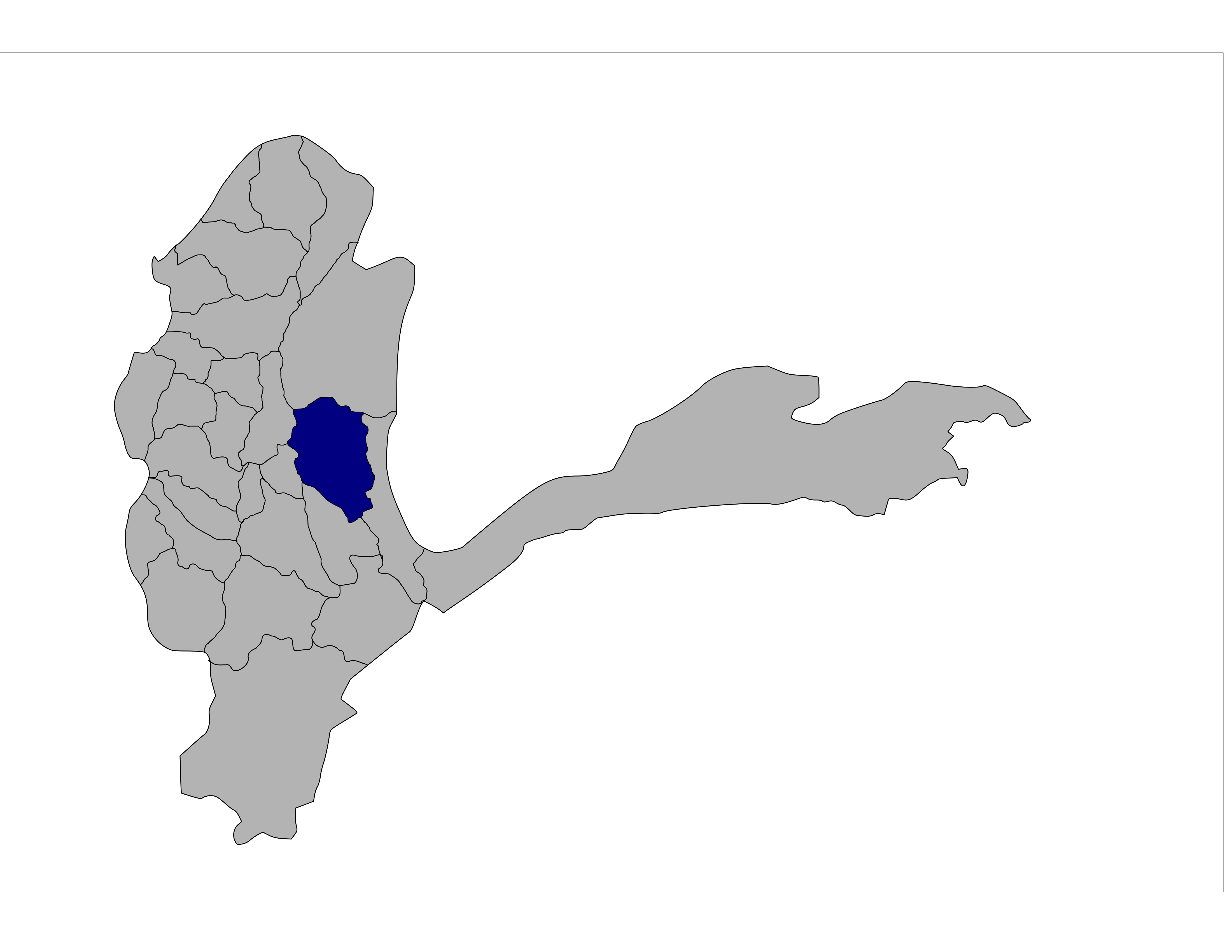 Shows the boundaries of Shuhada District, Badakhshan Province, Afghanistan.